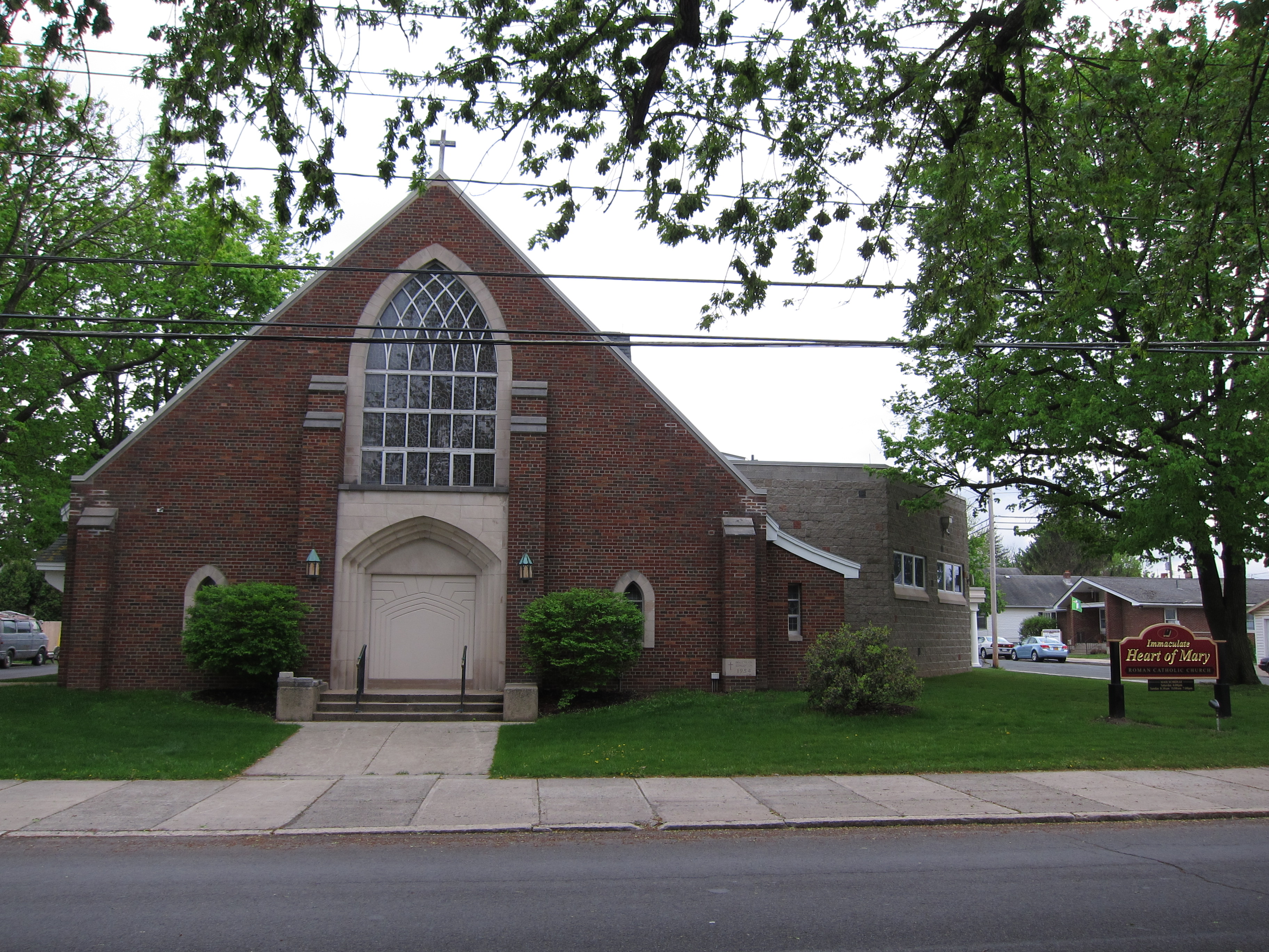 Immaculate Heart of Mary Parish (Watervliet, New York) - exterior, front